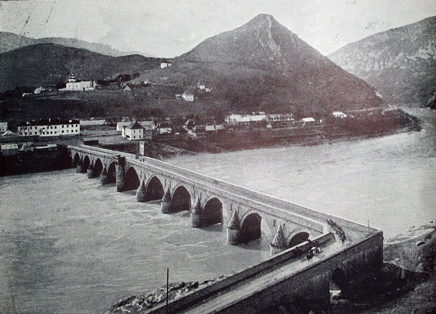 Drina Bridge in Višegrad